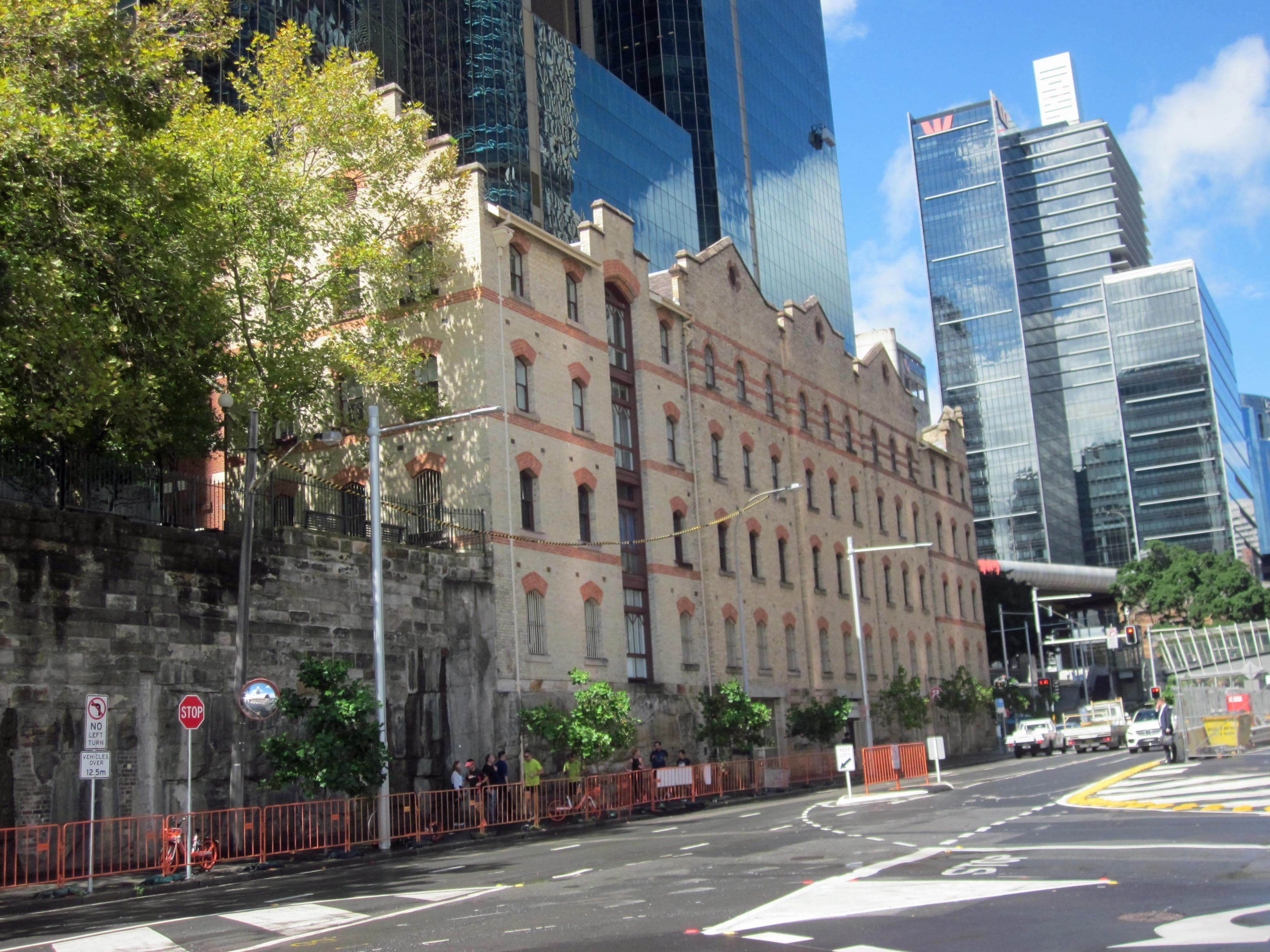 Grafton Bond Store, Sydney, NSW, is listed on the New South Wales State Heritage Register